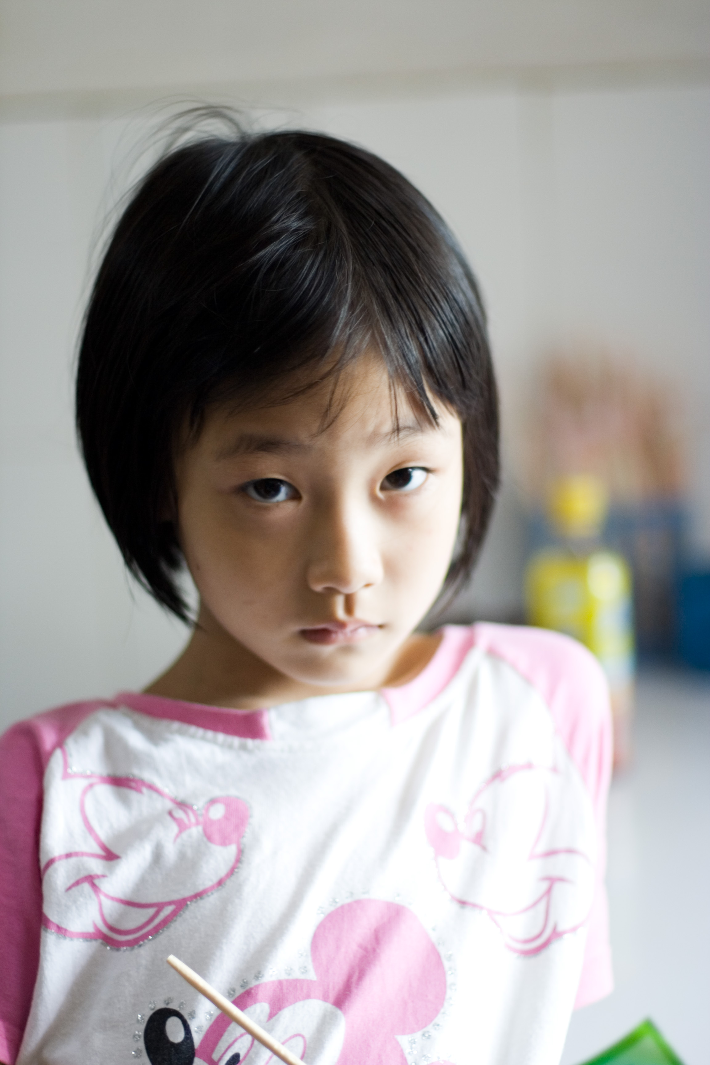 A shy and cute little girl in a small restaurant we found by chance on our way back from visiting a garden.